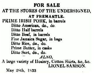 Lionel Samson advertisement from the Perth Gazette and Western Australian Journal, Vol. 1, No. 22, Pg. 1